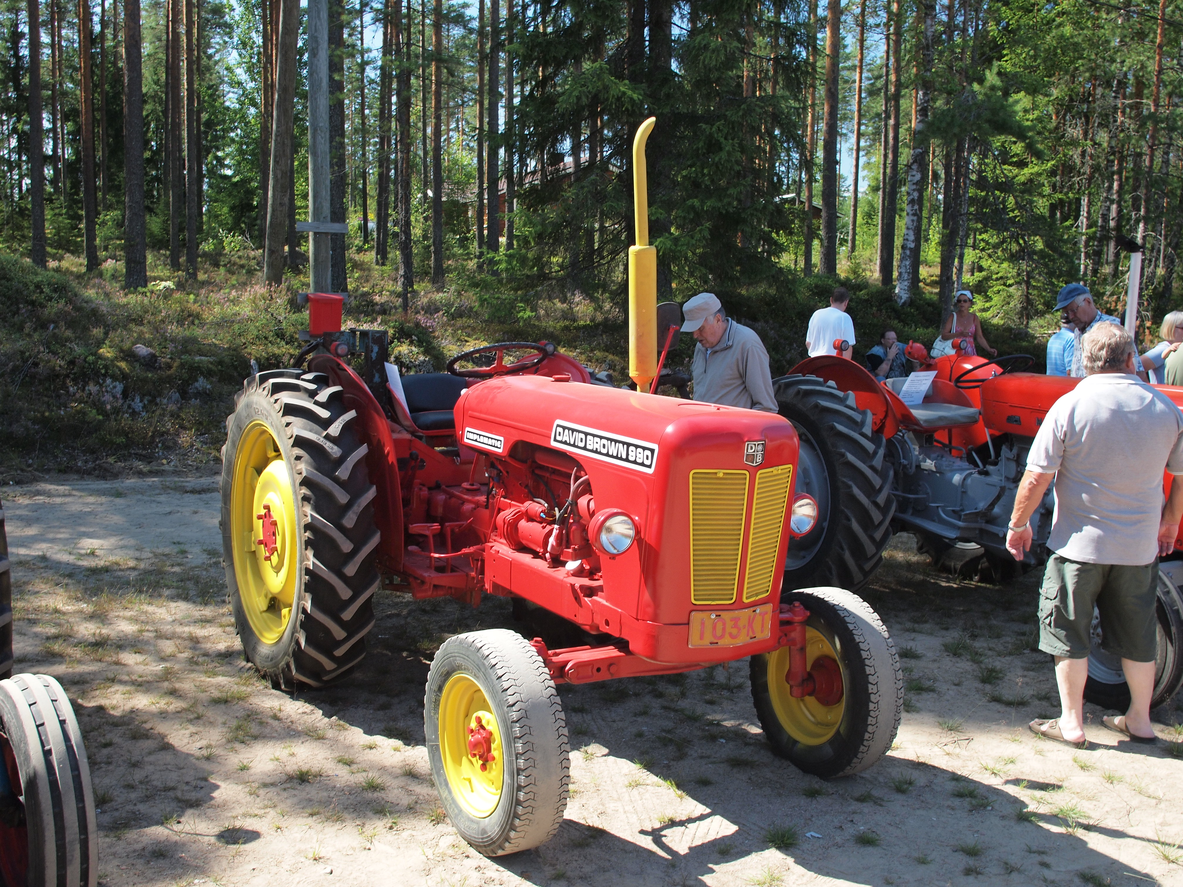 David Brown 990 Implematic 1963